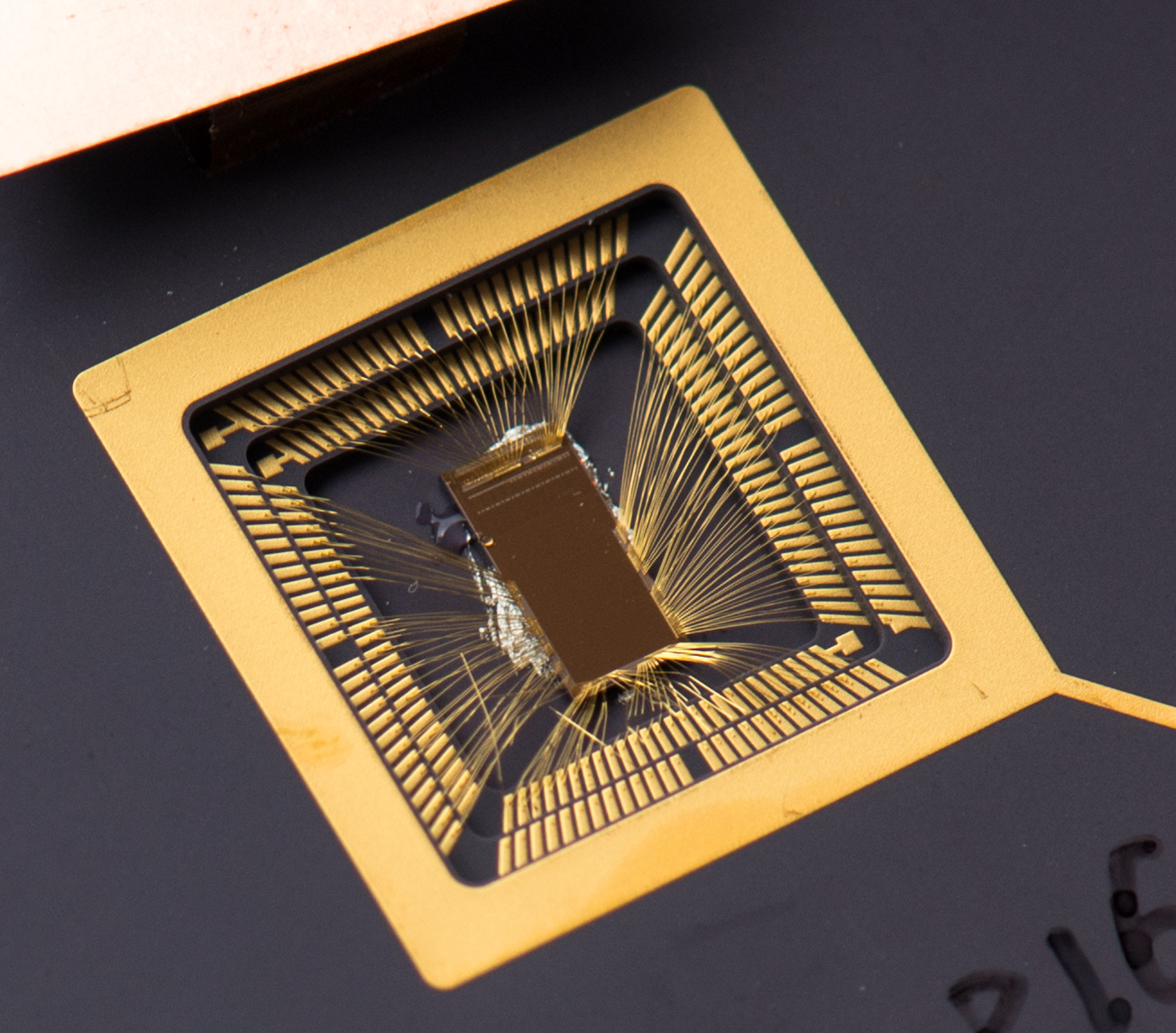 RISC V prototype chip - crop of File:Yunsup Lee holding RISC V prototype chip.jpg.